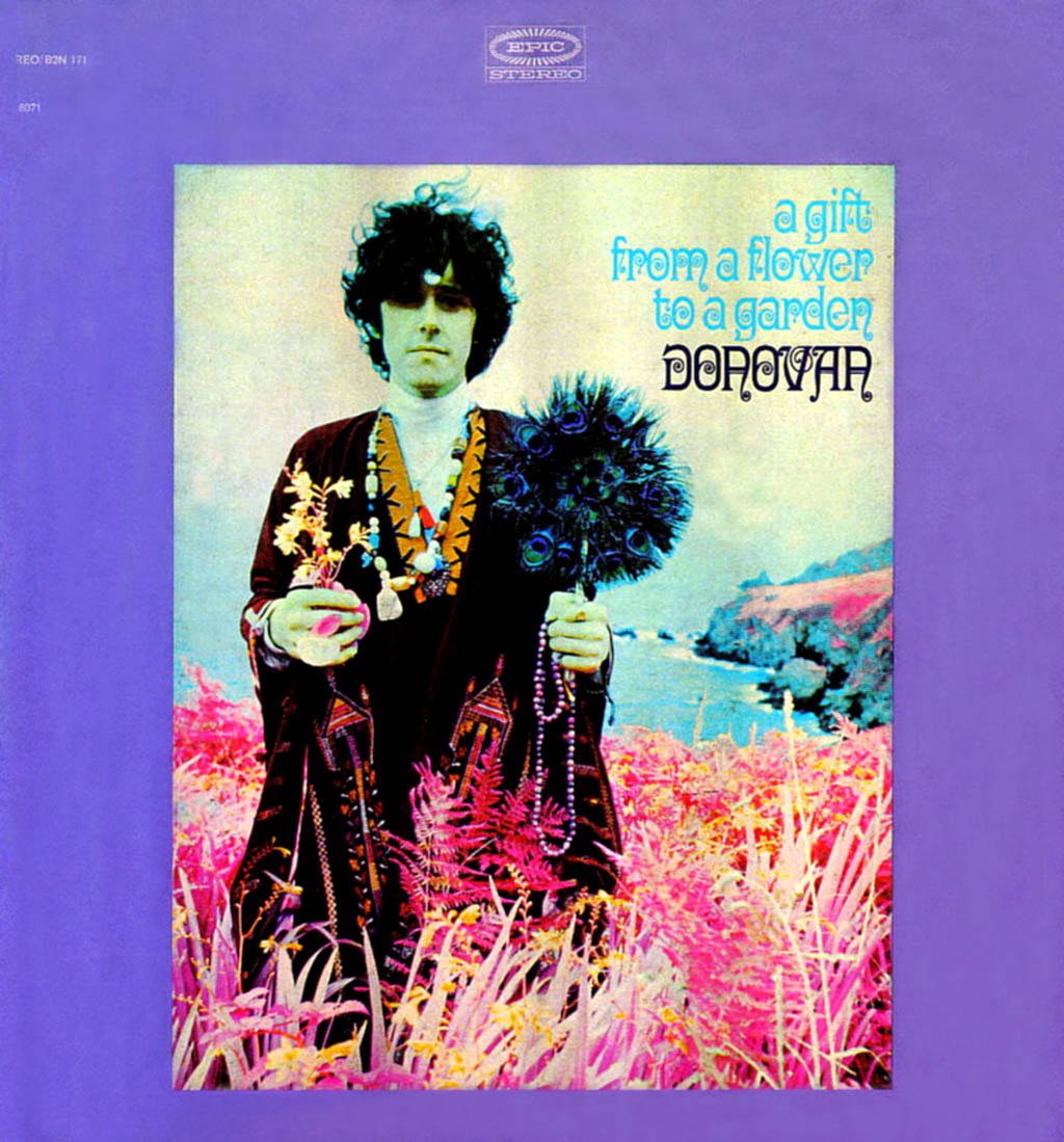 Donovan "Gift From A Flower To A Garden", The very first Rock/Pop Boxset 1968, cover photos, front, back and inside (Karl Ferris copyright).